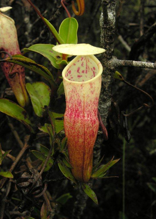 Nepenthes alba upper pitcher, Mount Tahan, Peninsular Malaysia